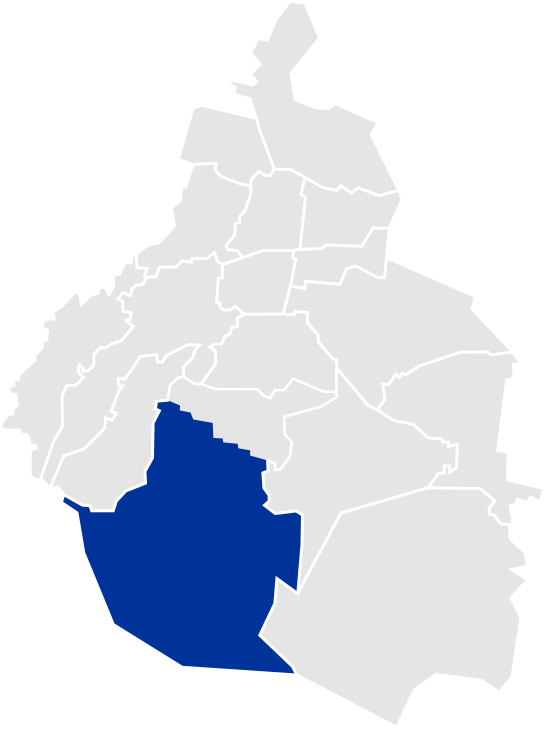 Map of the Fourteenth Federal Electoral District of the Federal District, México.